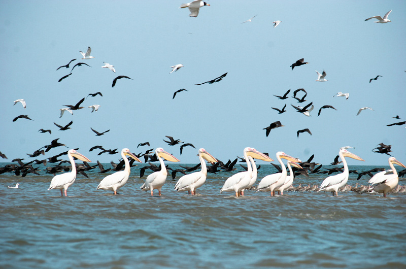 Ukrainian Danube Biosphere Reserve. White Pelicans and Great Cormorants.